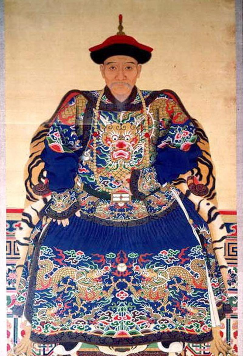 Geng Jingzhong, a military general during Ming and Qing dynasty.